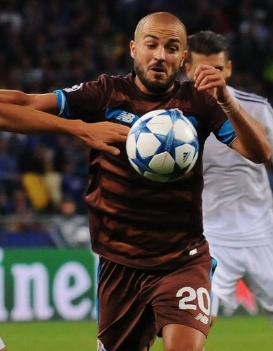 André André